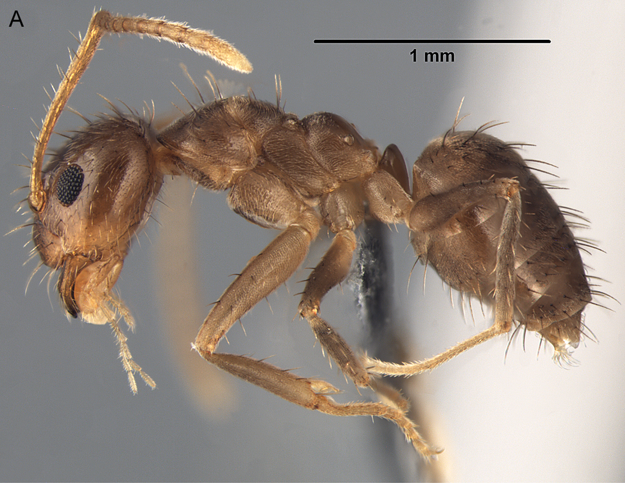 Nylanderia pubens worker. From